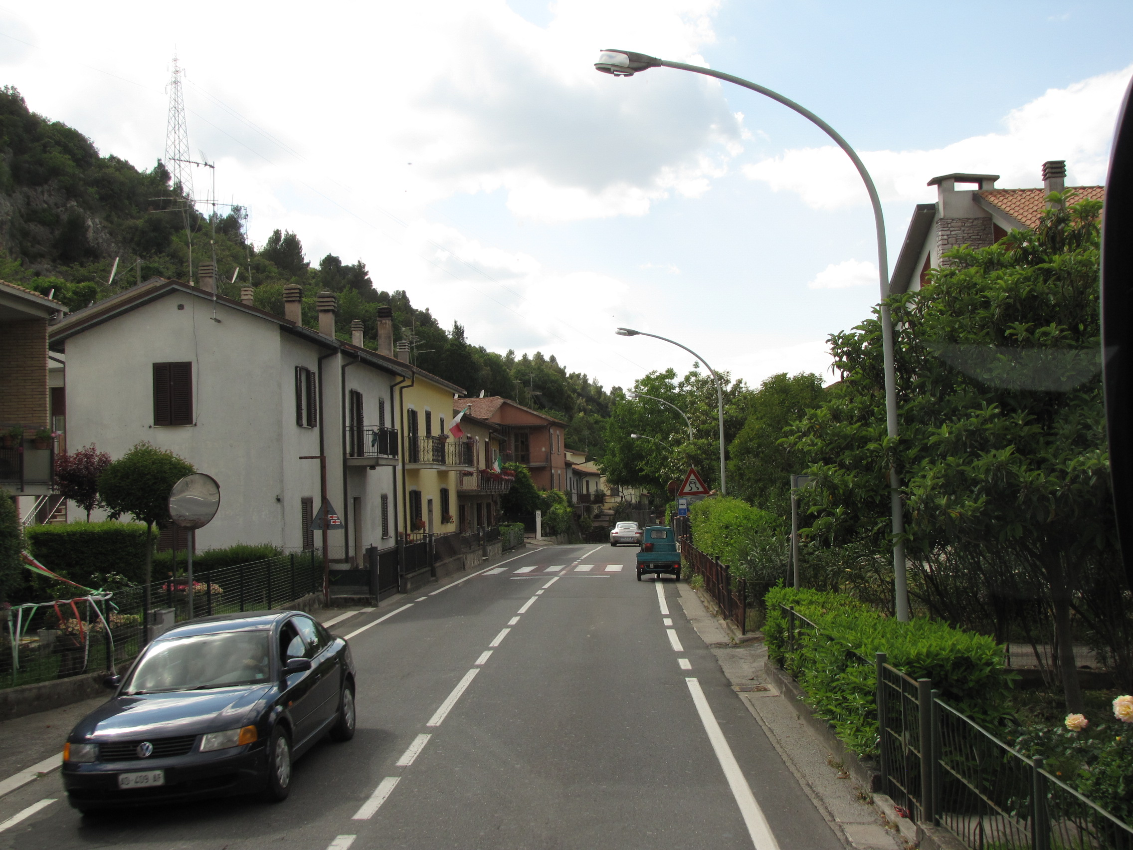 Marmore (village near Terni) - view from the State road 79 Rieti-Terni